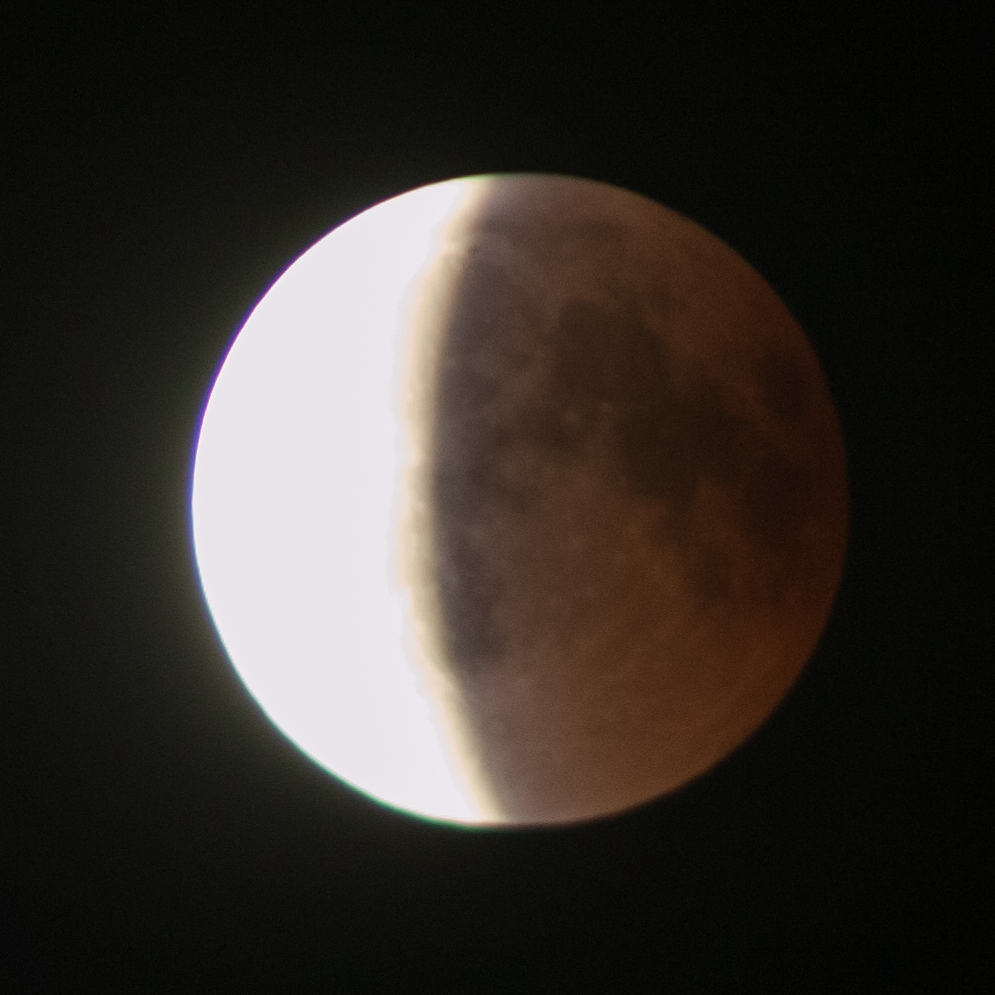 Lunar eclipse of 27 July 2018 at 21:31 UTC as seen from Lonsee, Baden-Württemberg, Germany. Note by LudwigSebastianMicheler: The shadow of planet earth with a blue sun ray stripe between the bright parts of the full moon and the dark red moon surface, caused by earth atmosphere.